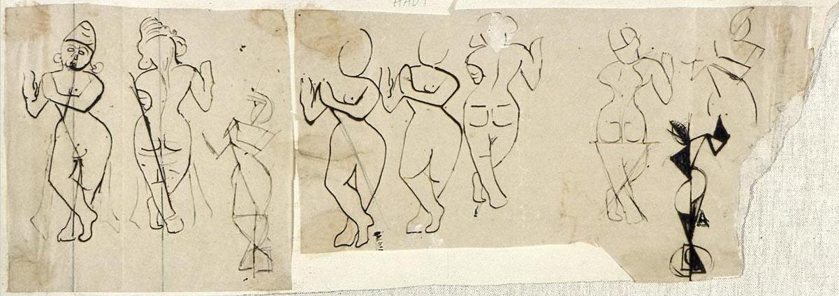 Study for File:Theo van Doesburg Dancers 1916.jpg